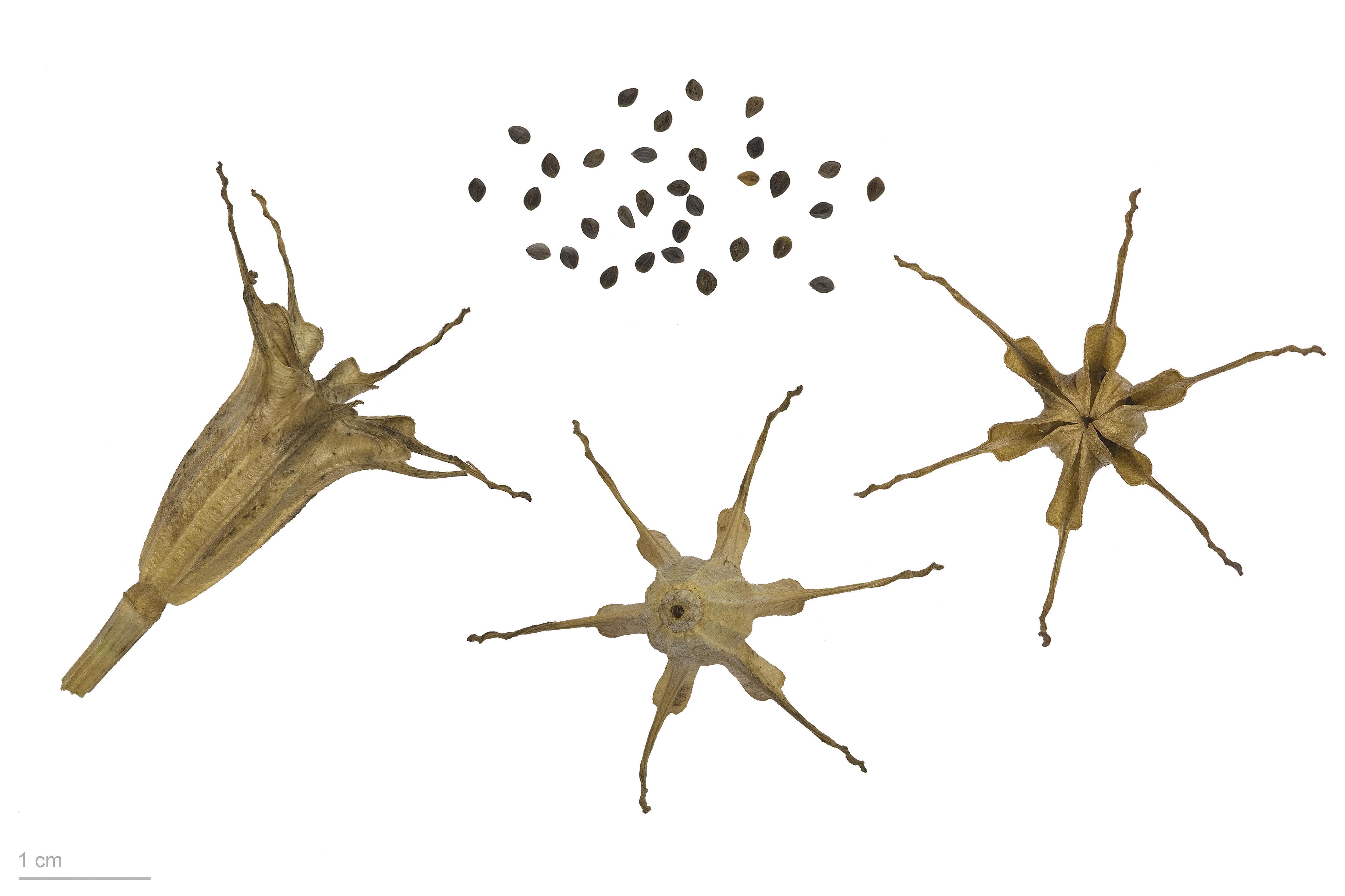 Nigella gallica , fruits and seeds